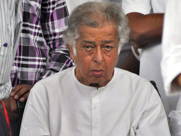 Shashi Kapoor at Shammi Kapoor's prayer meet